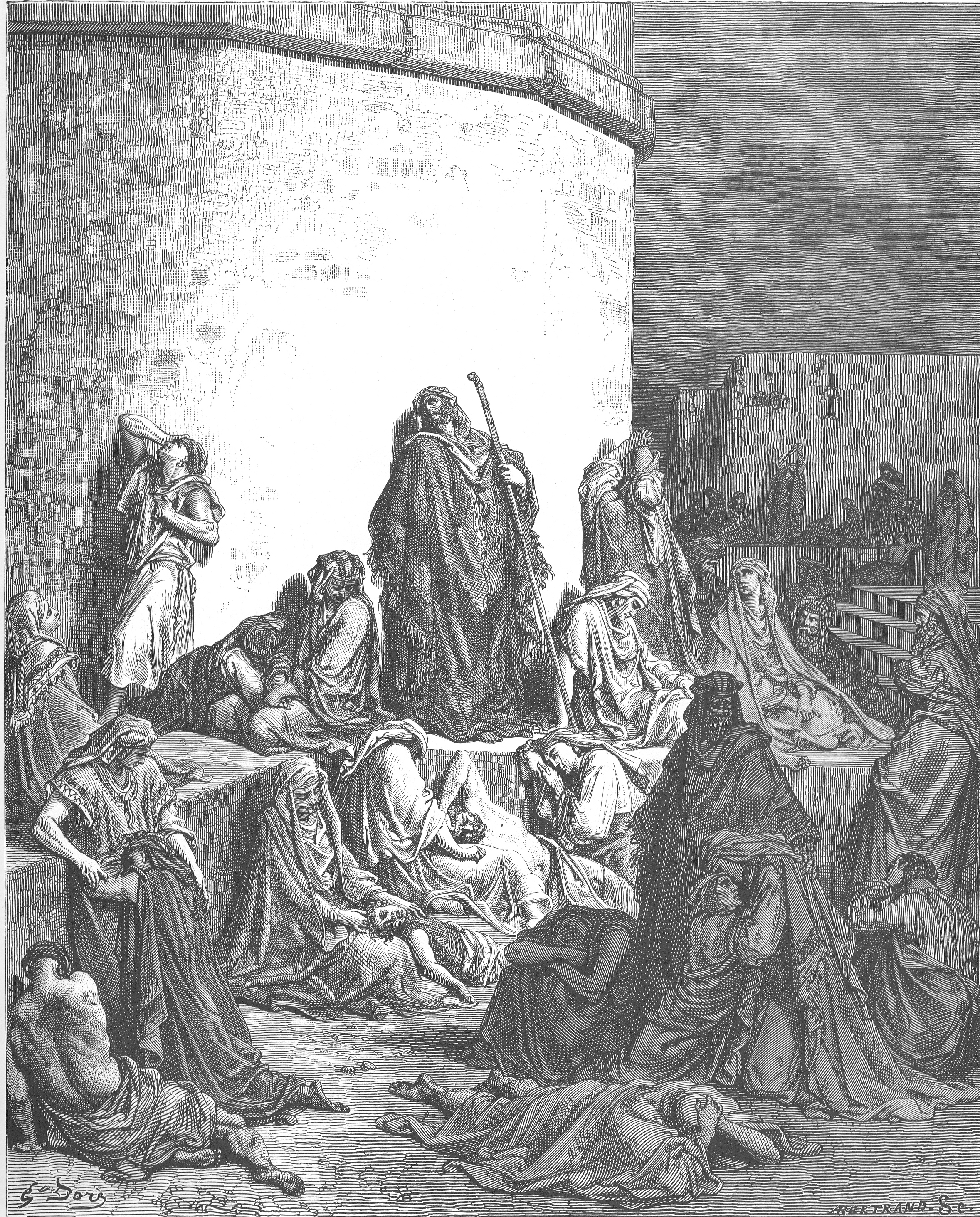 People Mourn over the Ruins of Jerusalem (Lam.1:1-5)